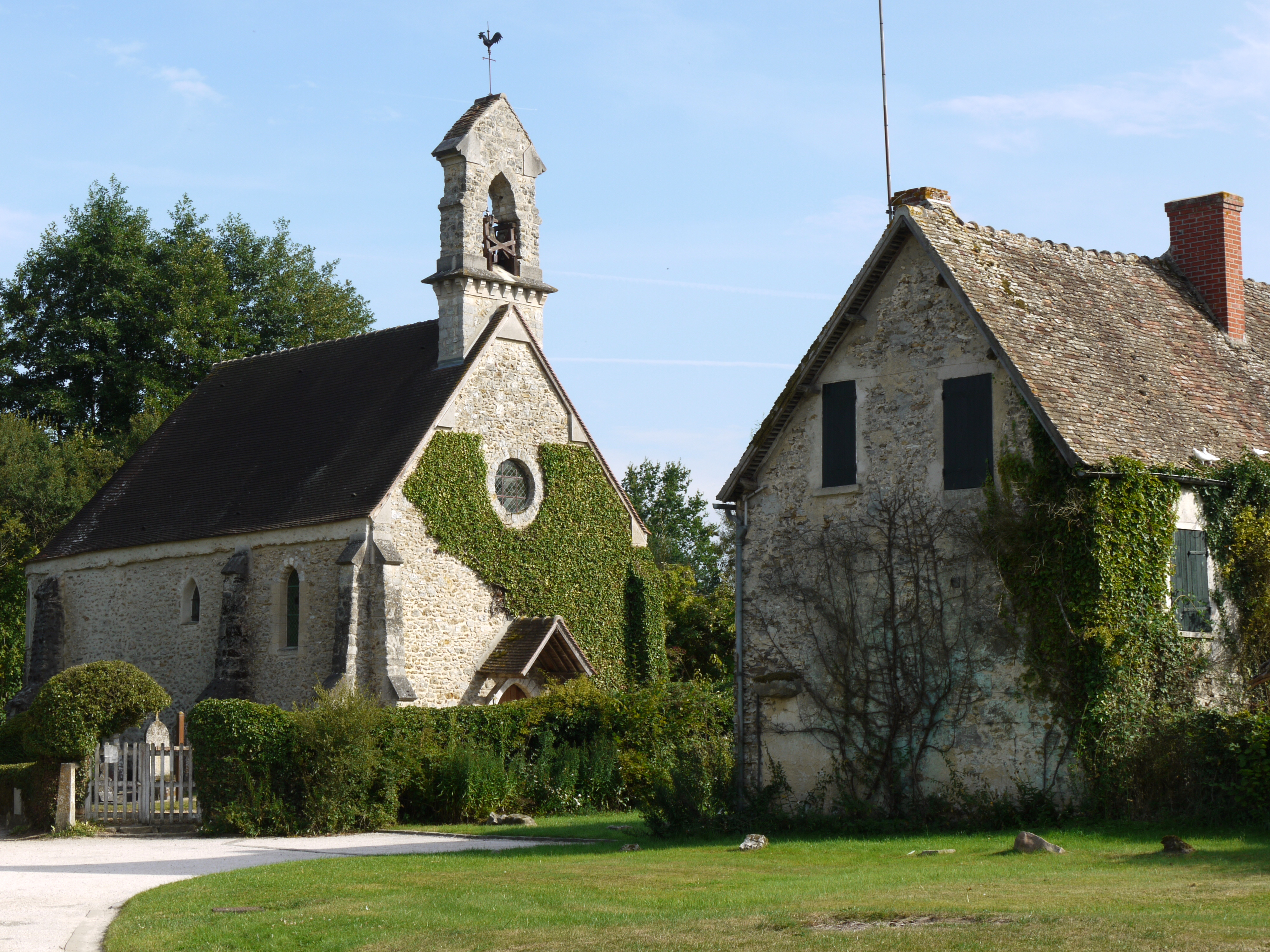 Gambaiseuil, Foret de Rambouillet, Ile de France